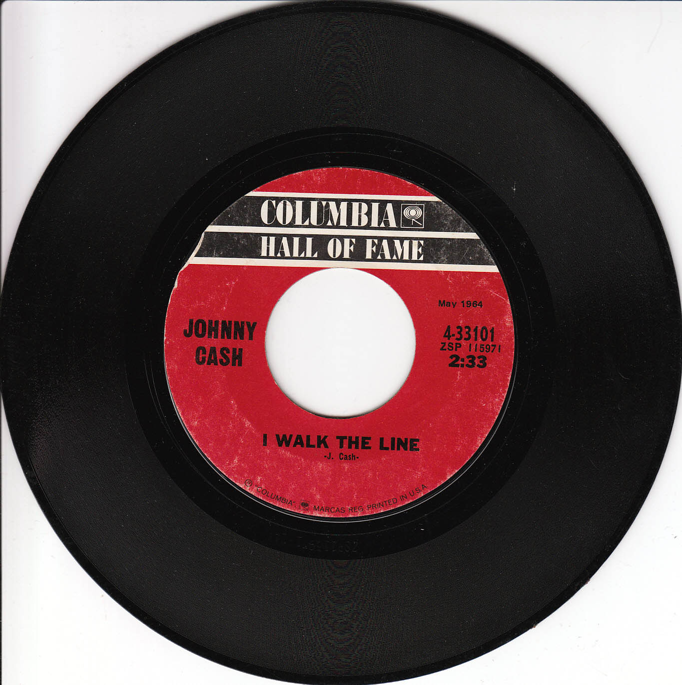 I Walk the Line, Johnny Cash, Columbia Records